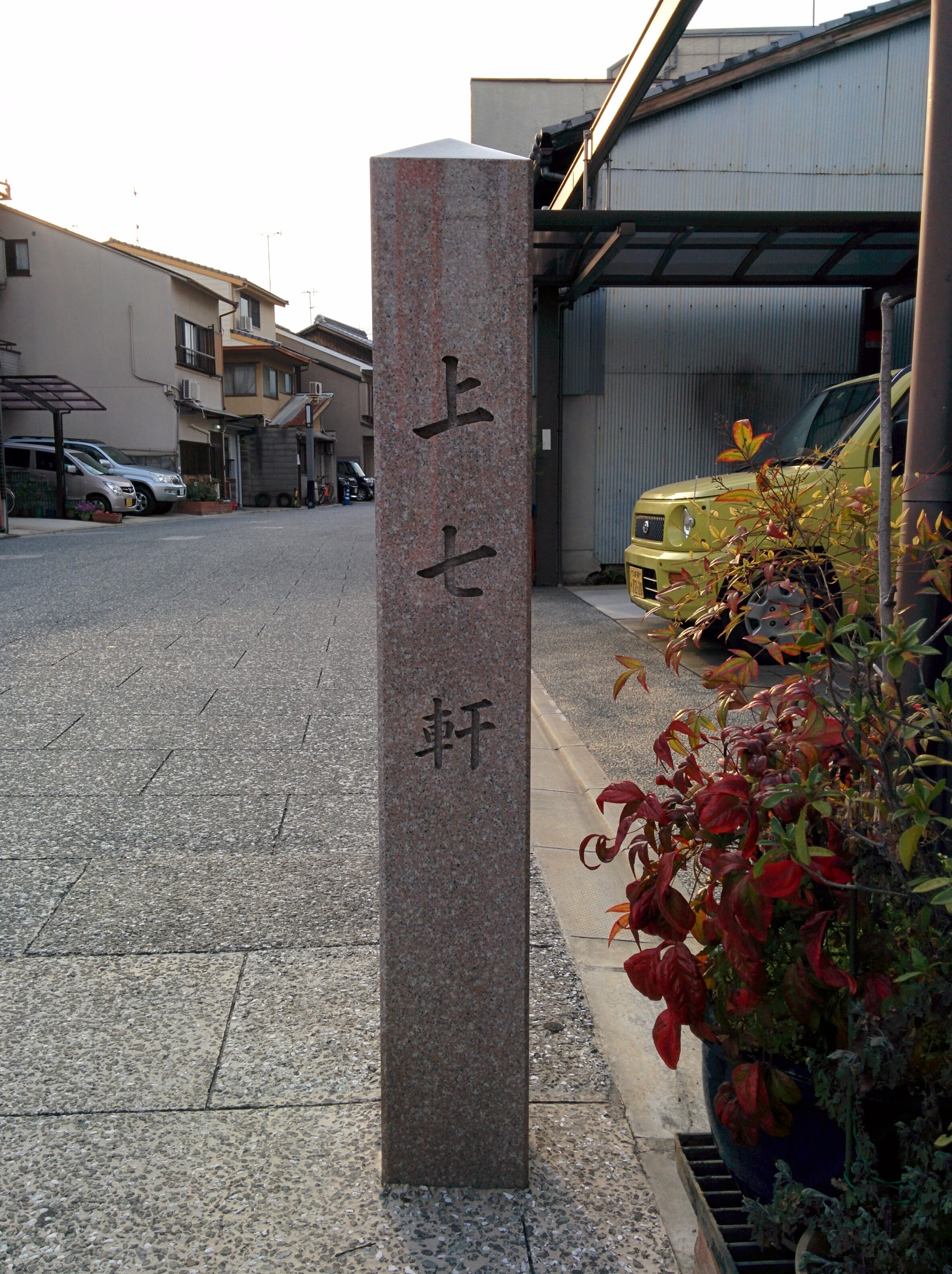 Kamishichiken Information monument